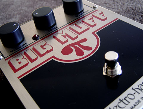 Electro-Harmonix Big Muff Pi Re-Issue NYC Edition